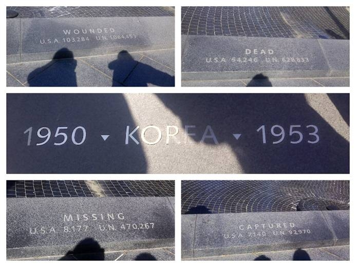 This is a collage of photos from the Korean War Memorial in Washington DC that includes the dates of the war as well as the number of dead, injured, etc. soldiers.